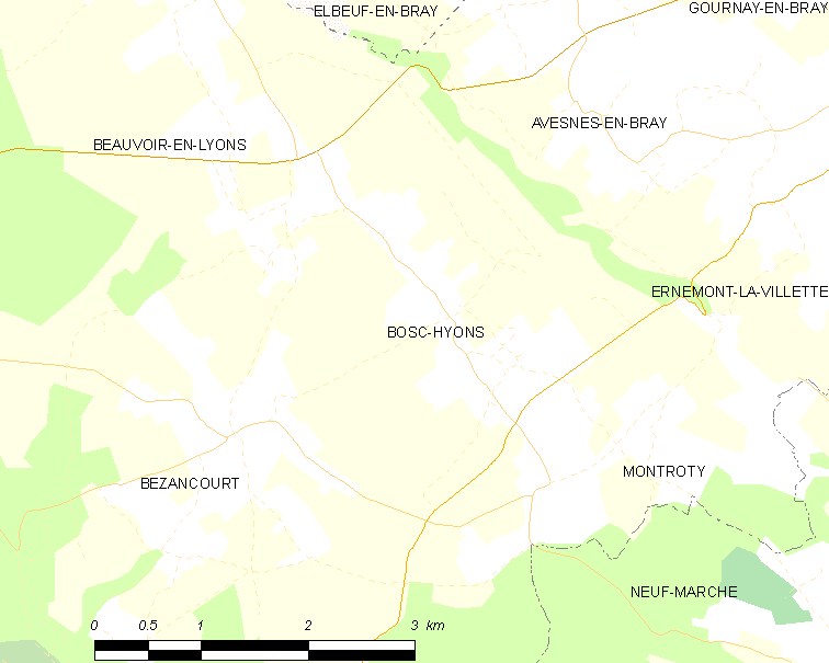 Map of French municipality Bosc-Hyons